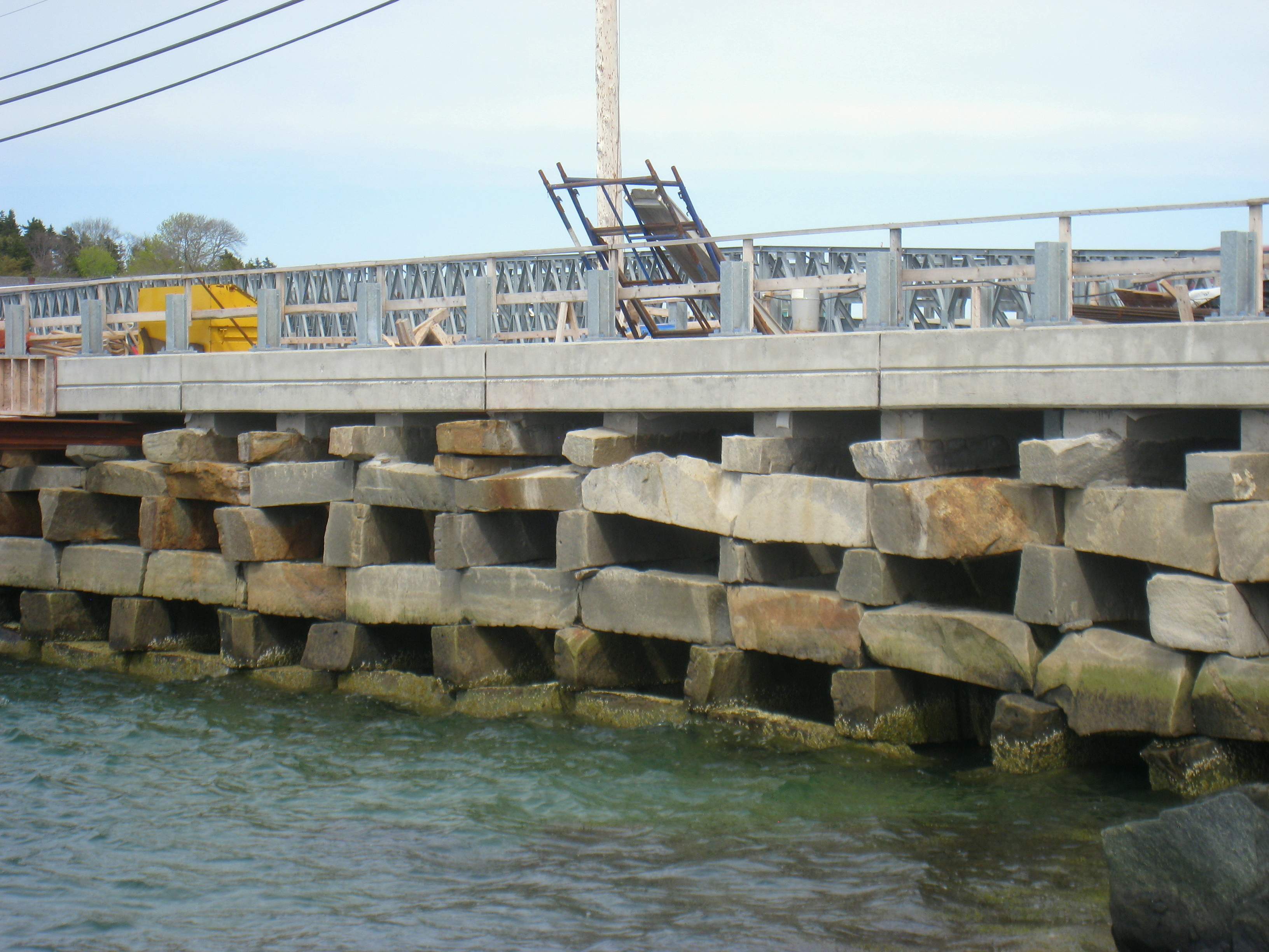 Bailey Island Bridge, Harpswell, Maine, USA. Photograph taken during bridge reconstruction.